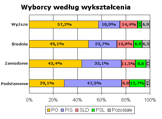 European Parliament election in Poland 2009 - exit polls by SMG/KRC. Voters by level of education. Source: [1]